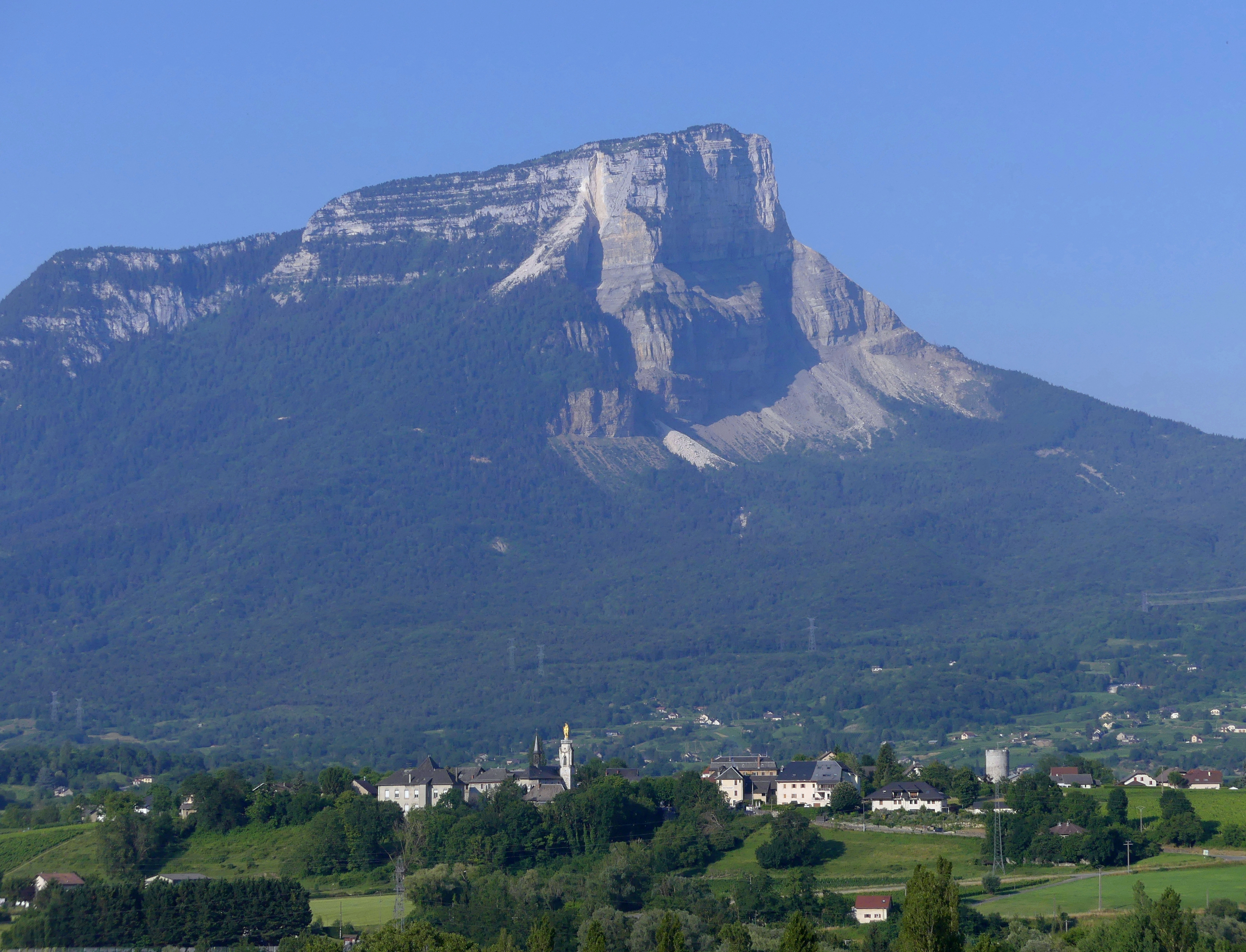 Sight in the morning, from the heights of Chignin vineyards, of Myans vineyard village and its sanctuary, at the foot of Mont Granier mountain, in Savoie, France.